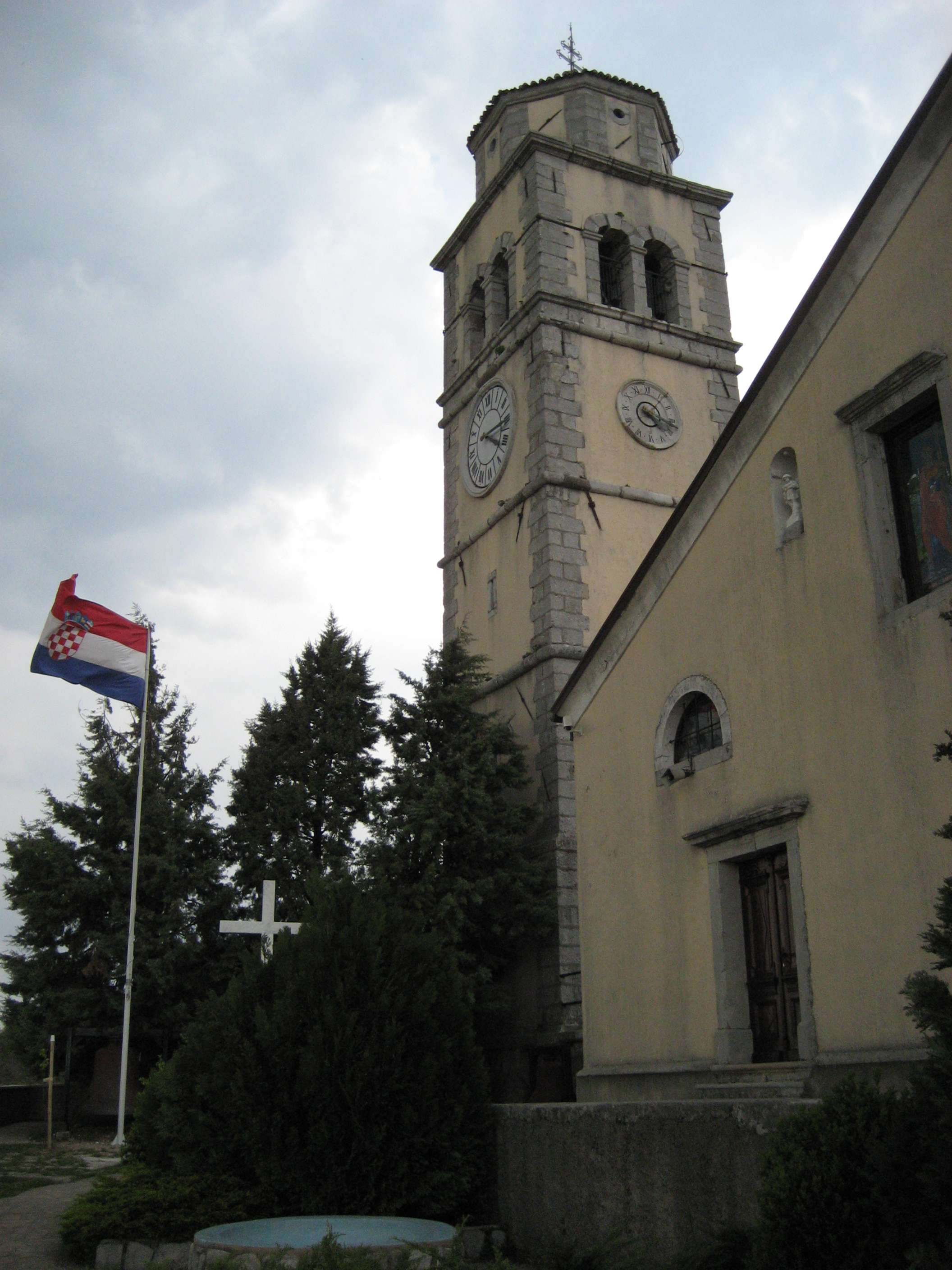 Kastav, Church